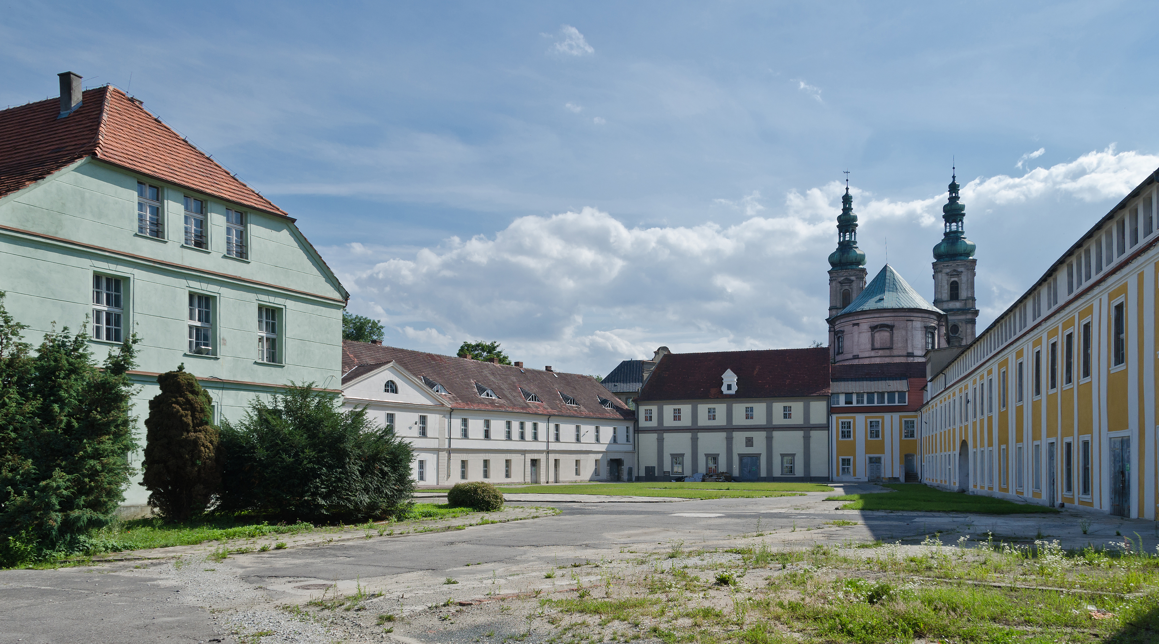 Bishops manor in Nysa